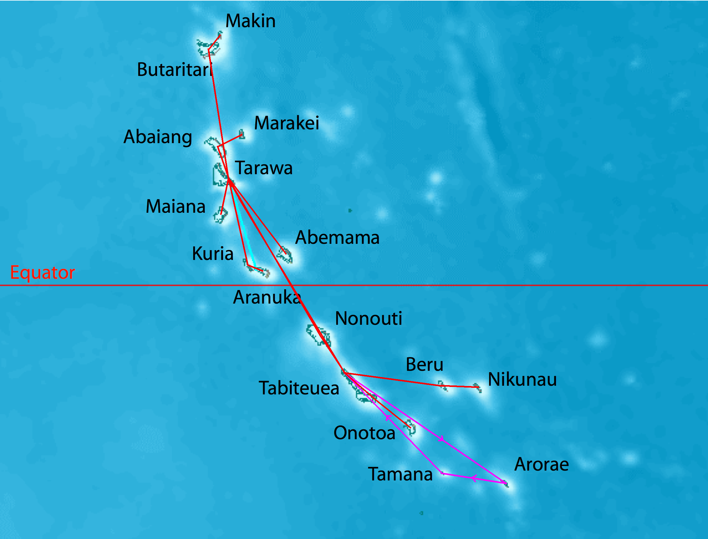 Map indicating all Air Kiribati routes.